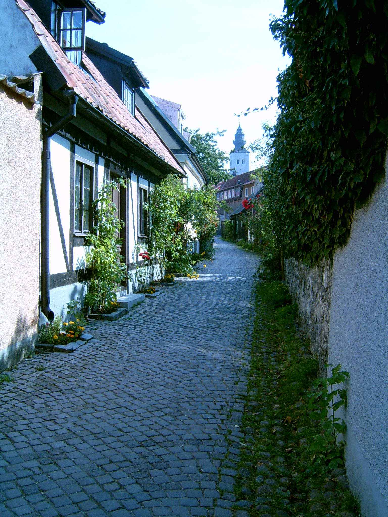 Fiskargränd ("The Fishermans Alley") in Visby.